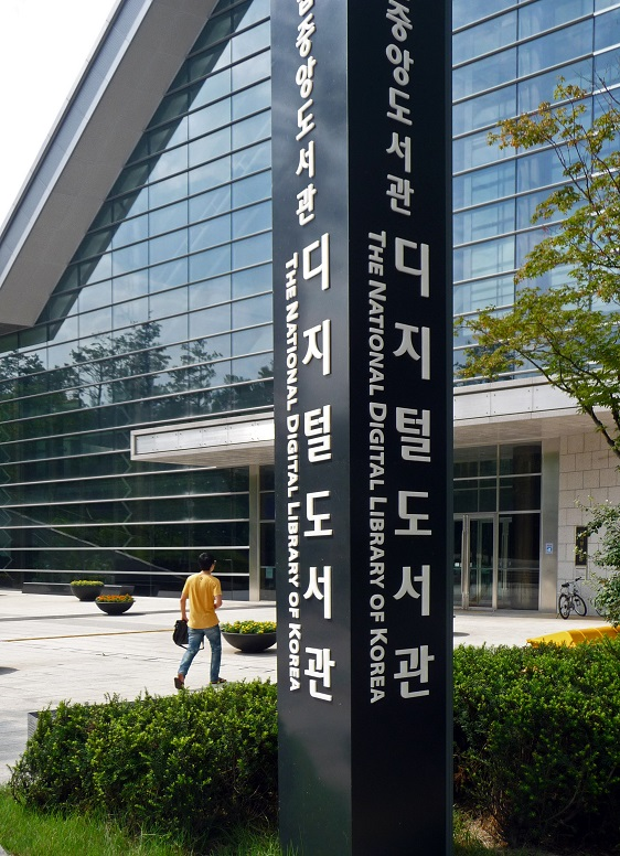 About this photo: when in Seoul, one of our library staff members took the opportunity to visit the National Digital Library of Korea. Dibrary is the world’s first hybrid library combining digital and analogue ideas. Dibrary consists of “Dibrary Portal,” a virtual space, and a physical service space called “Dibrary Information Commons”. - About Dibrary